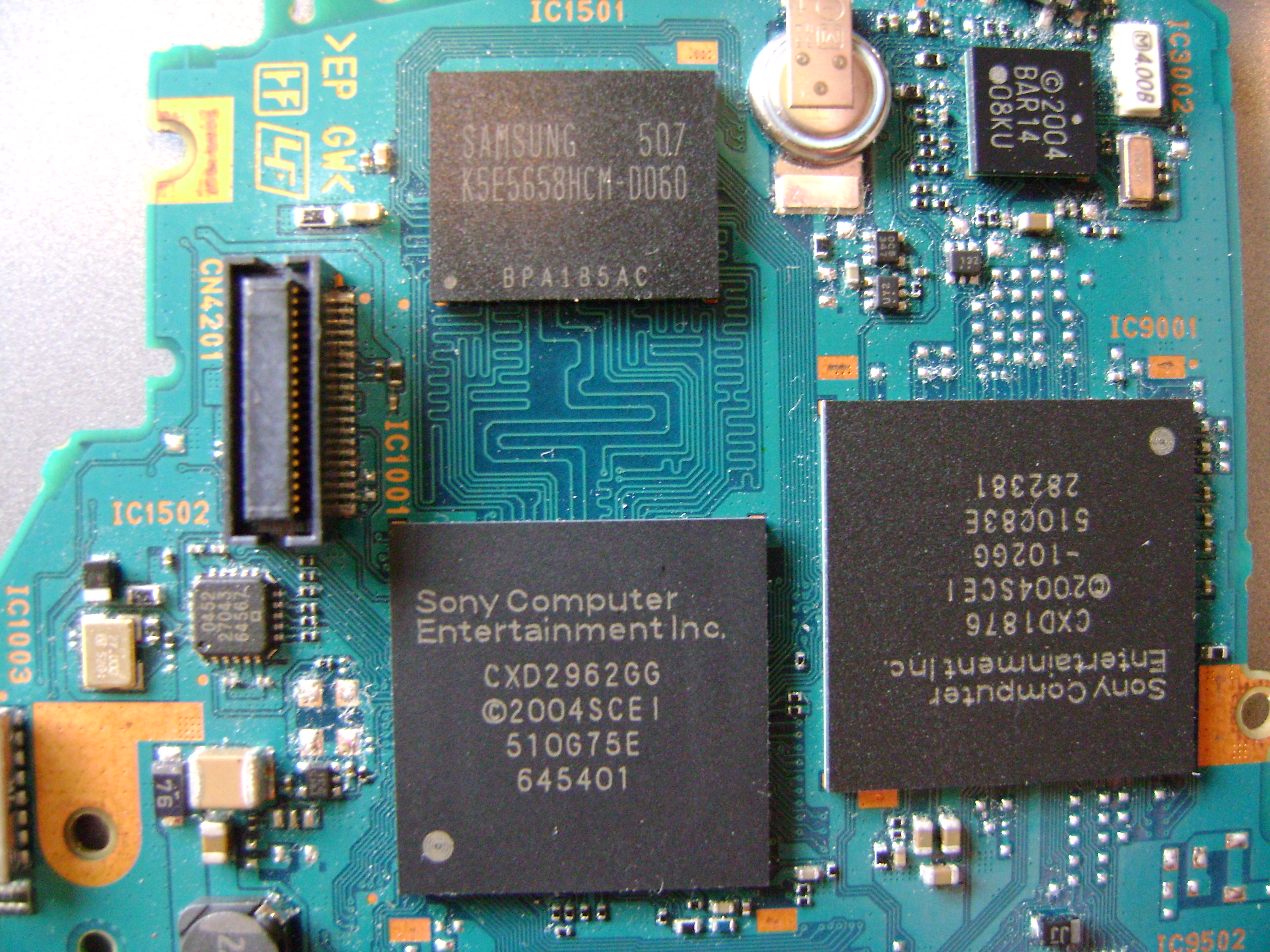 Photograph of a PSP TA-079 Mainboard